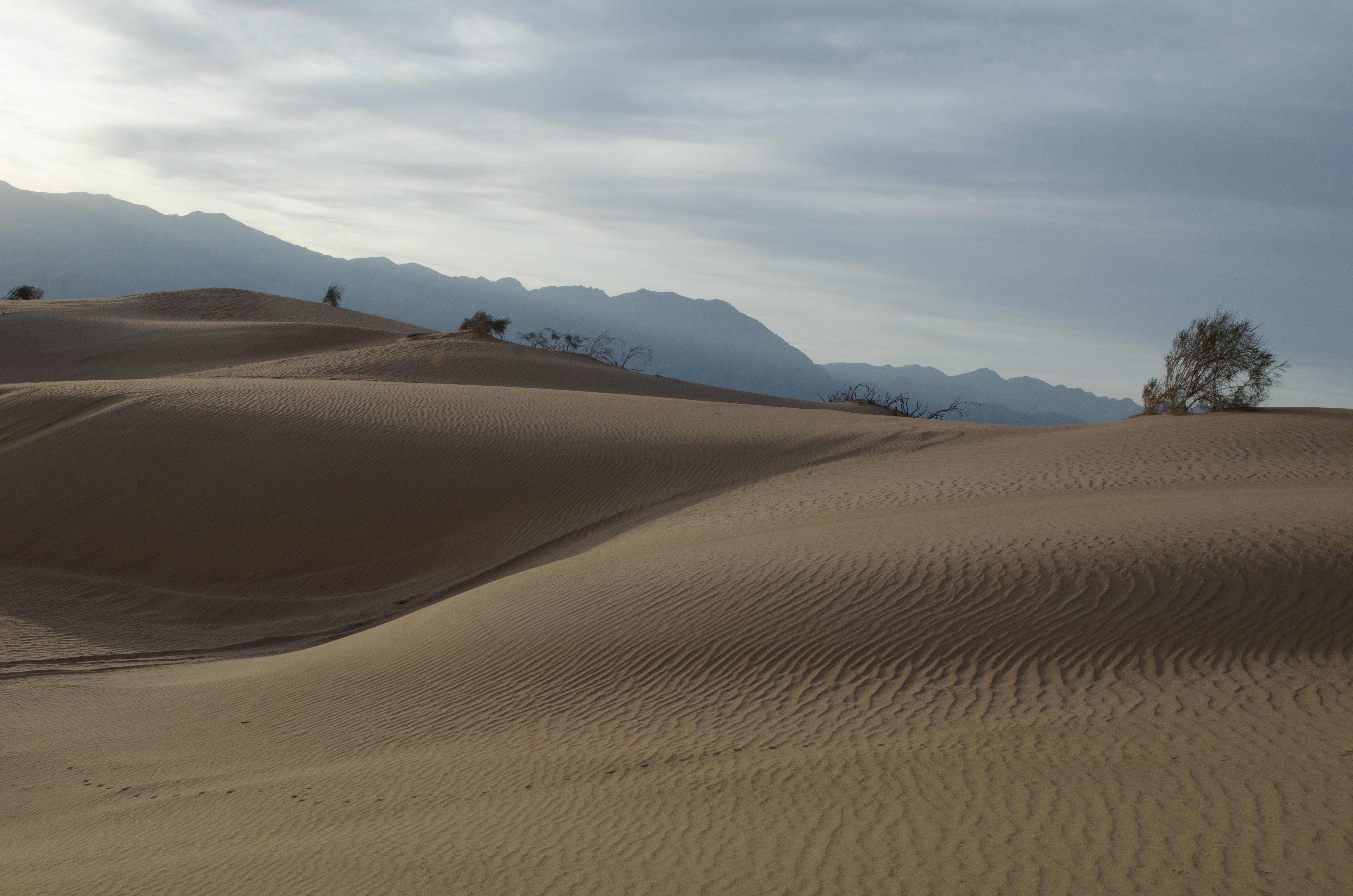 Samar Dunes, Geography of Israel